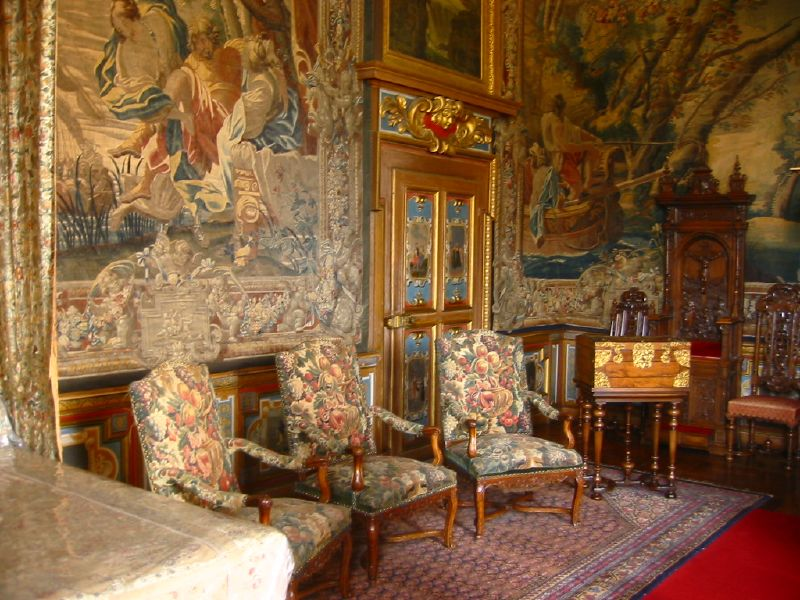 The king's bedroom in the château de Cheverny